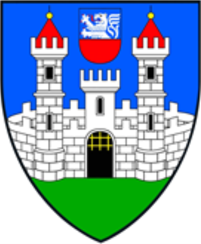 Coats of arms of Zistersdorf, Lower Austria